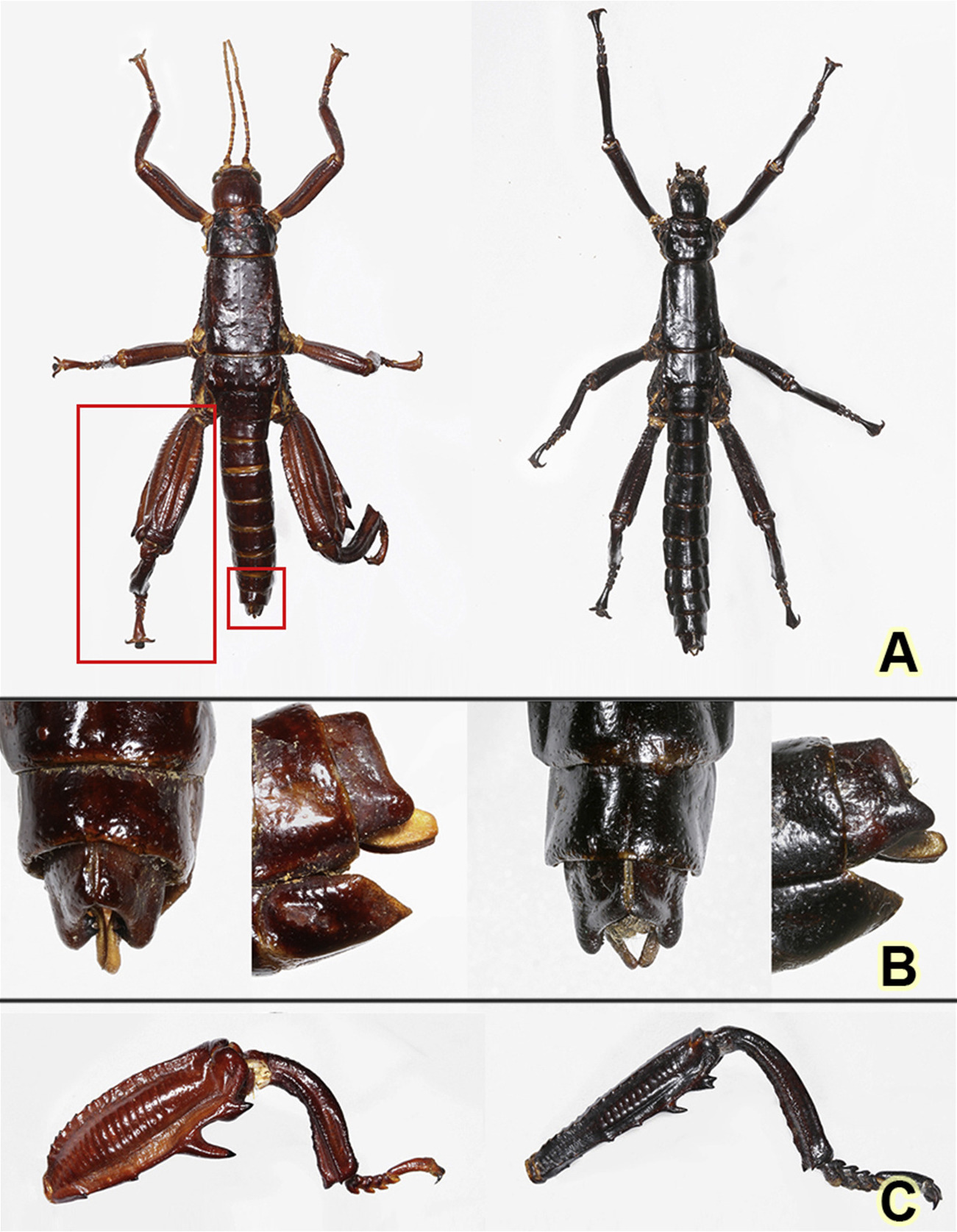 Morphological Differences between Males from Lord Howe Island and Ball’s Pyramid: Museum specimens from Lord Howe Island are shown on the left, and captive-reared specimens originally from Ball’s Pyramid are shown on the right. Specimens from Lord Howe Island tend to be more robust (A) and have larger femoral spines (C), as well as differences in cercal morphology (B). Although coloration of the specimens also differs, this is most likely a consequence of aging. Because no congeneric taxa exist, it is unclear whether these differences correspond to species-level differentiation or are merely a reflection of environmental or ontogenetic differences, necessitating a genetic investigation of how the two populations relate to each other.